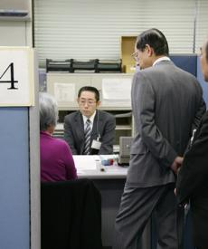 Yasuo Fukuda, Prime Minister, inspected Setagaya Social Insurance Office in Setagaya Ward, Tōkyō Metropolis on January 12, 2008.